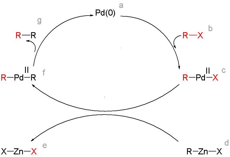 Negishi Coupling Mechanism